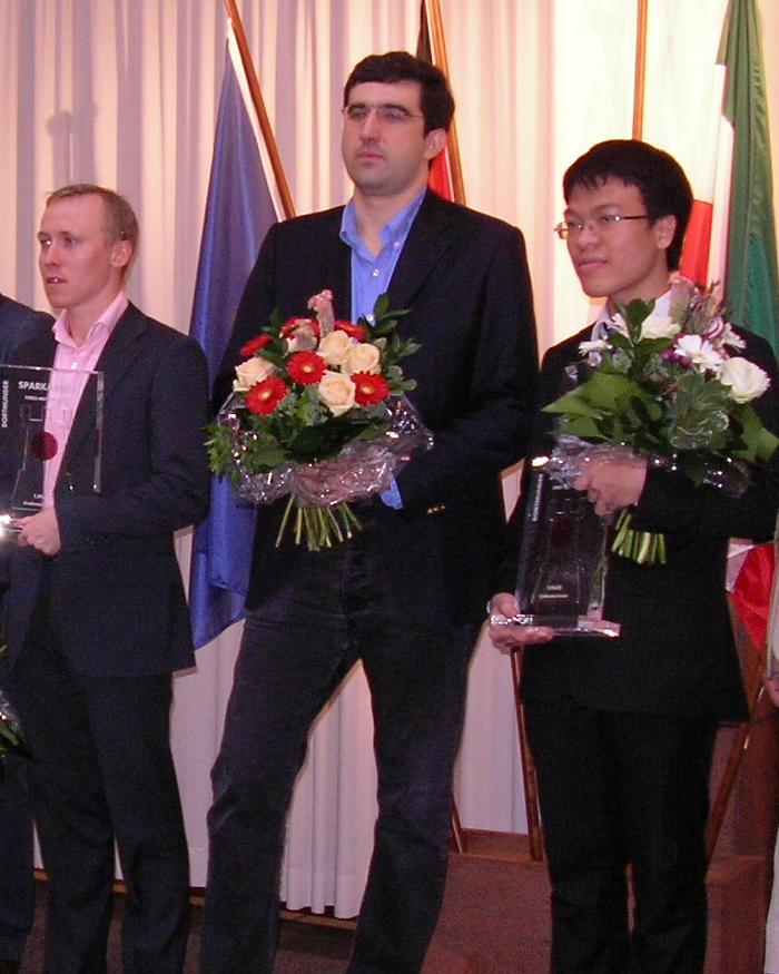 The first: 1. Ruslan Ponomariov, 3. Wladimir Kramnik, 2. Quang Liem Le, Dortmunder Schachtage 2010, Photographer Gerhard Hund.